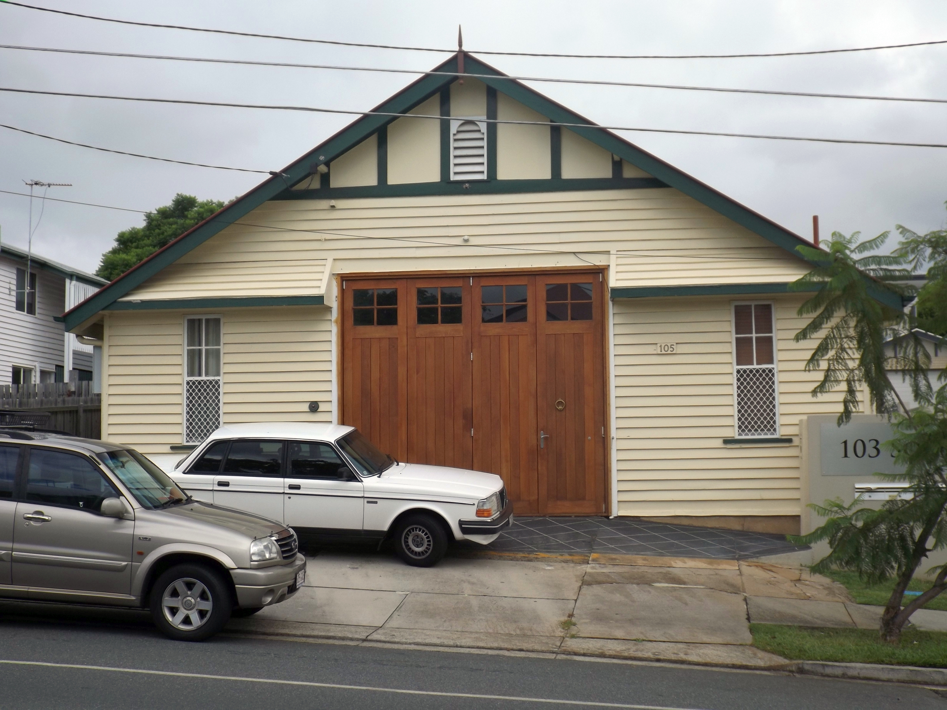 Photo of Balmoral Fire Station at Morningside, Brisbane, Queensland, Australia.